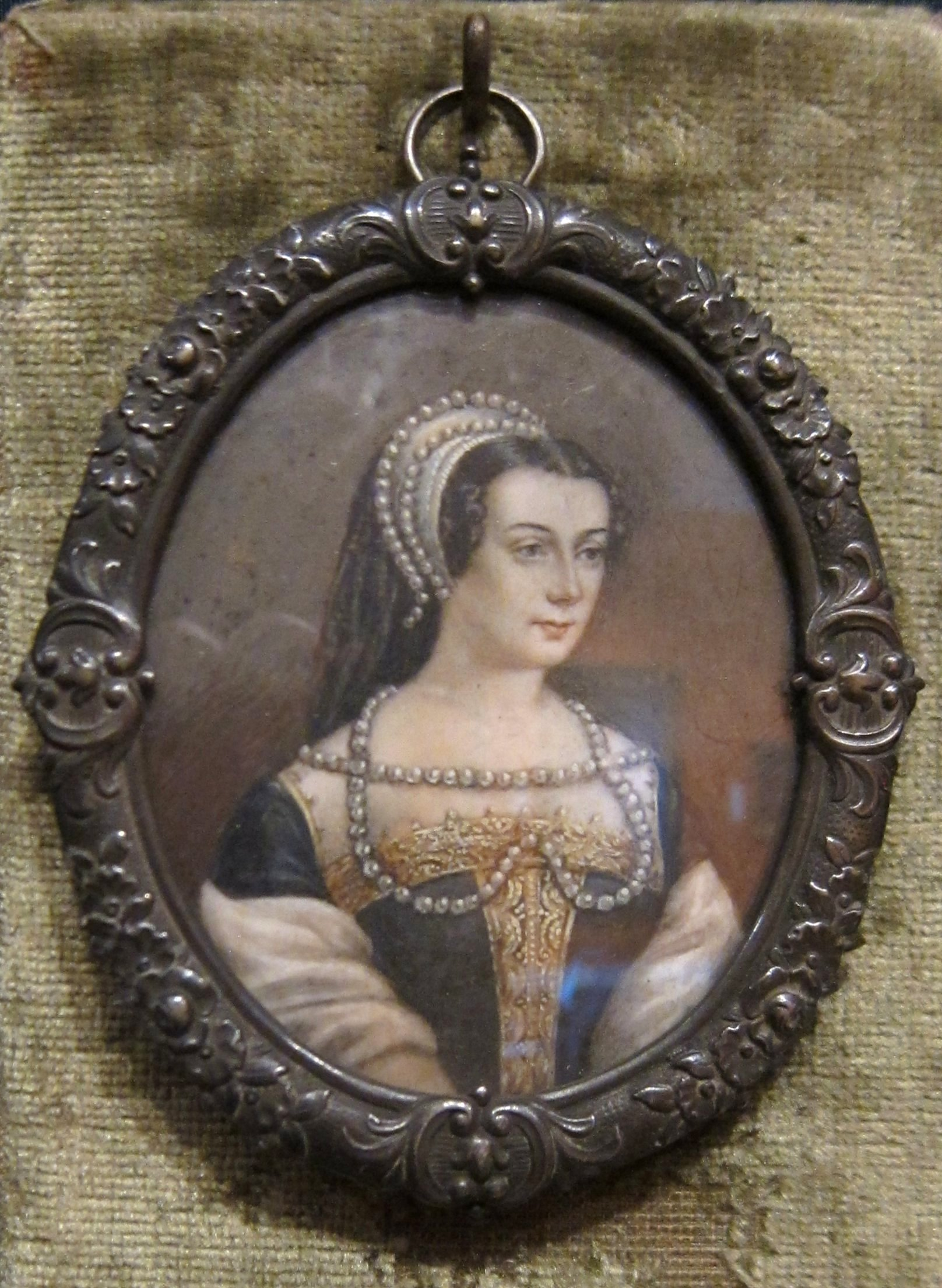 Portrait of Claude of France (1499–1532)